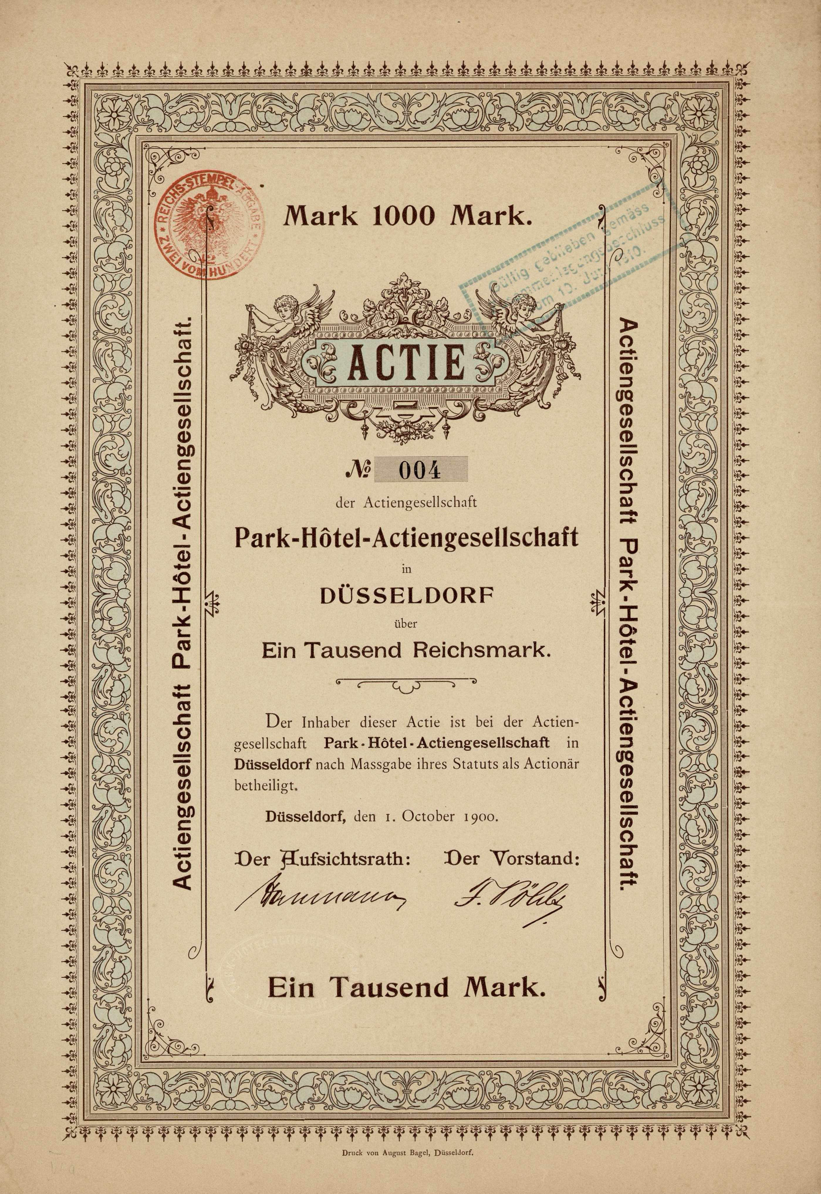 Share of the Park-Hotel-AG, issued 1. October 1900